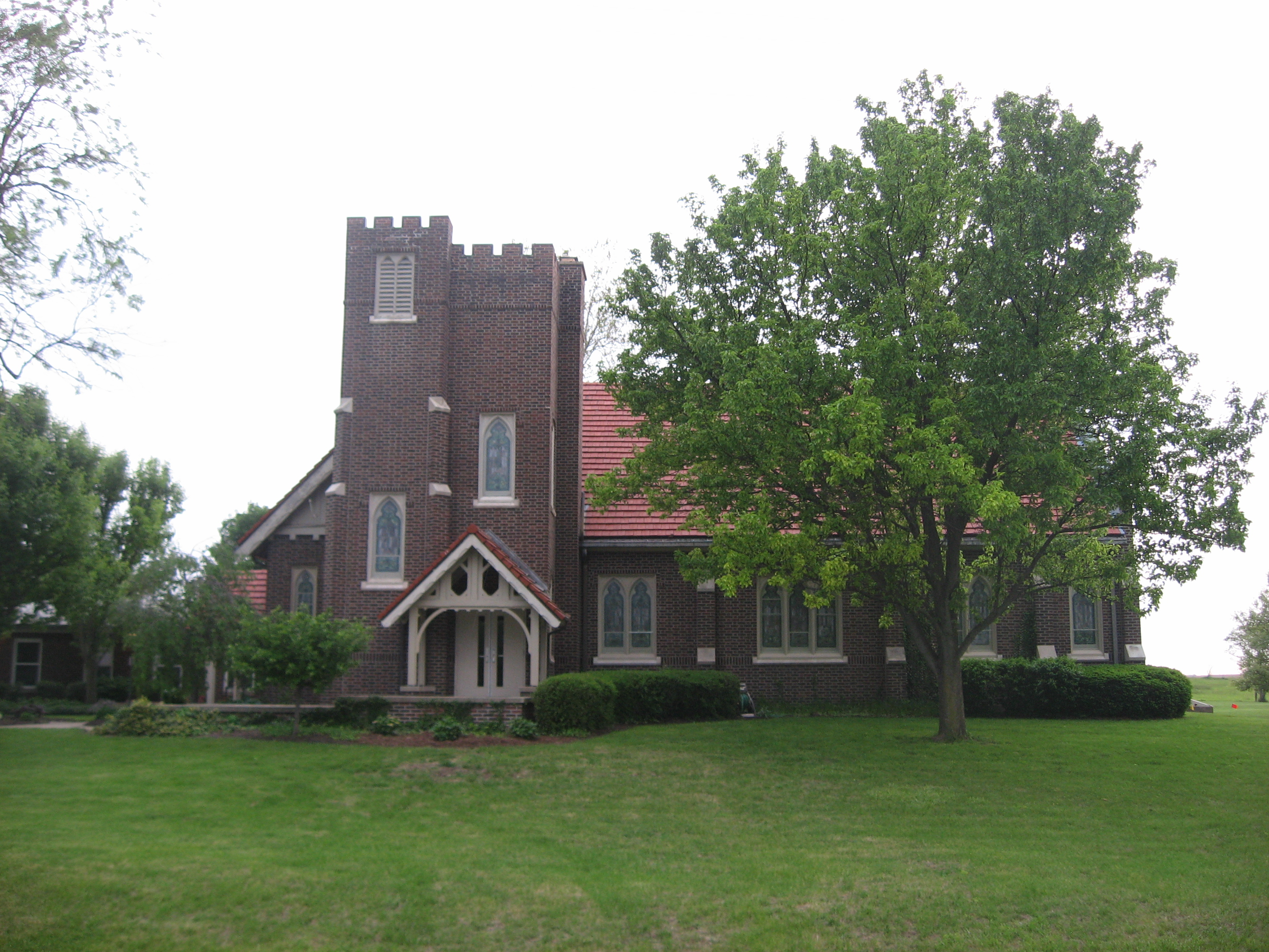 Front of Stidham United Methodist Church, located at 5300 S. 175W in Shadeland, Indiana, United States. Built in 1912, it is listed on the National Register of Historic Places.